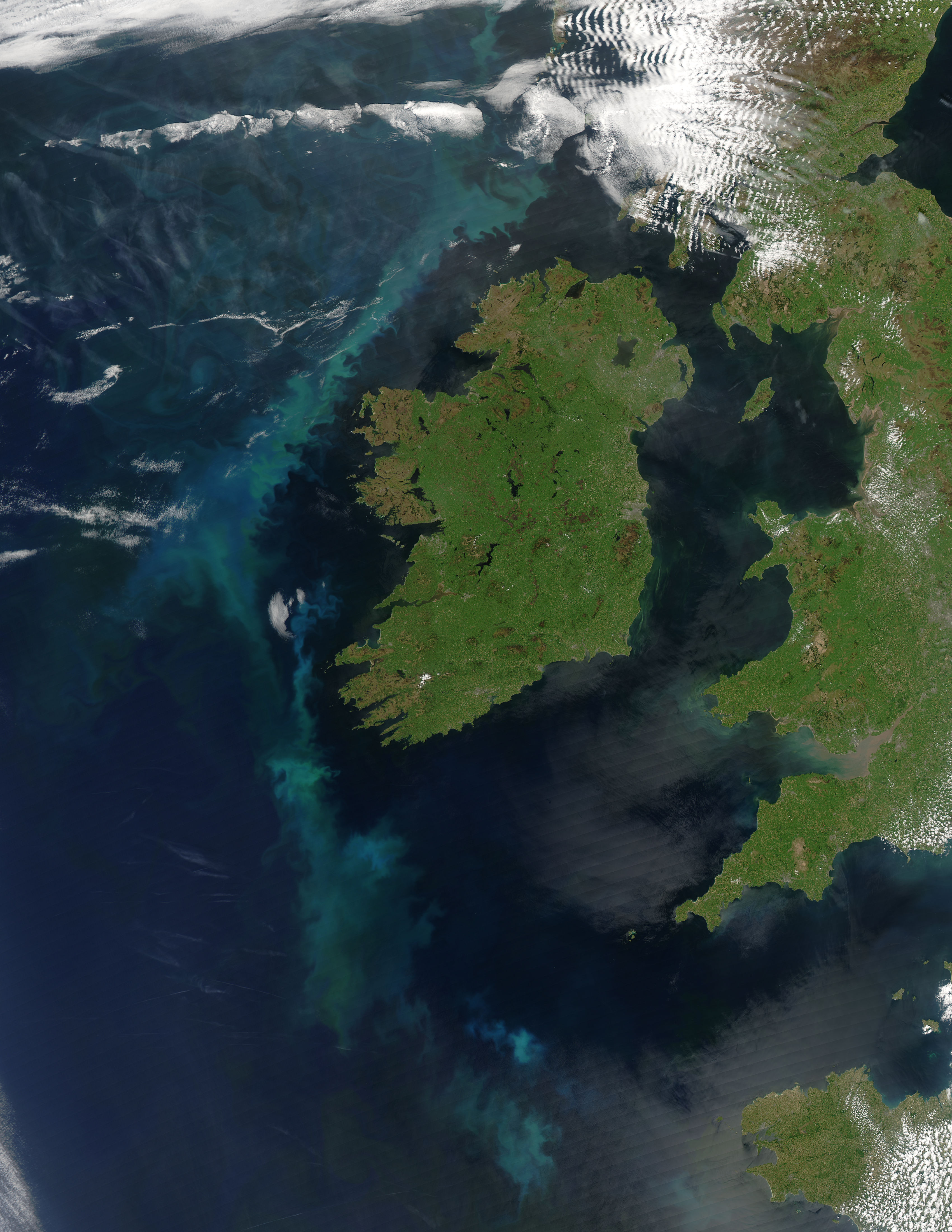 Phytoplankton Bloom off Ireland. – Viewspace Caption: Swirling clouds of blue and green lit the Atlantic Ocean west of Ireland on June 2, 2006, when the Moderate Resolution Imaging Spectroradiometer (MODIS) on NASA’s Aqua satellite captured this image. The ocean is normally black in true-color, photo-like satellite images such as this one, but a large phytoplankton bloom lent the water its brilliant blue and green hues. Phytoplankton are microscopic plants that grow in the sunlit surface waters of the ocean. When enough of the plants grow in one place, the bloom can be seen from space. England appears to the east of Ireland. Towards the south of England, there appear to be smaller phytoplankton blooms near the coastline.